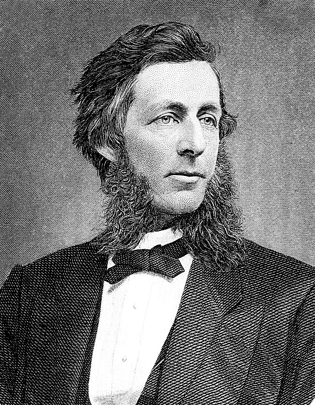 Engraving of Providence Mayor Thomas A. Doyle (cropped)